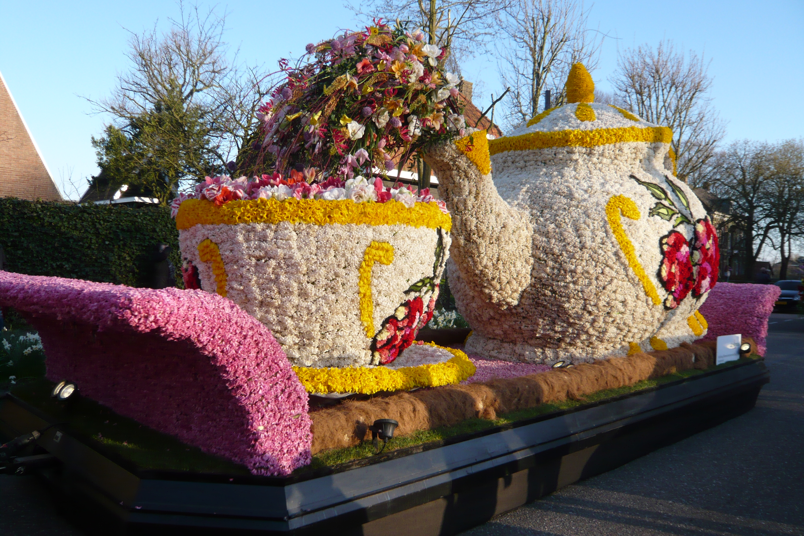 Bloemencorso Bollenstreek near Heemstede, April 2013